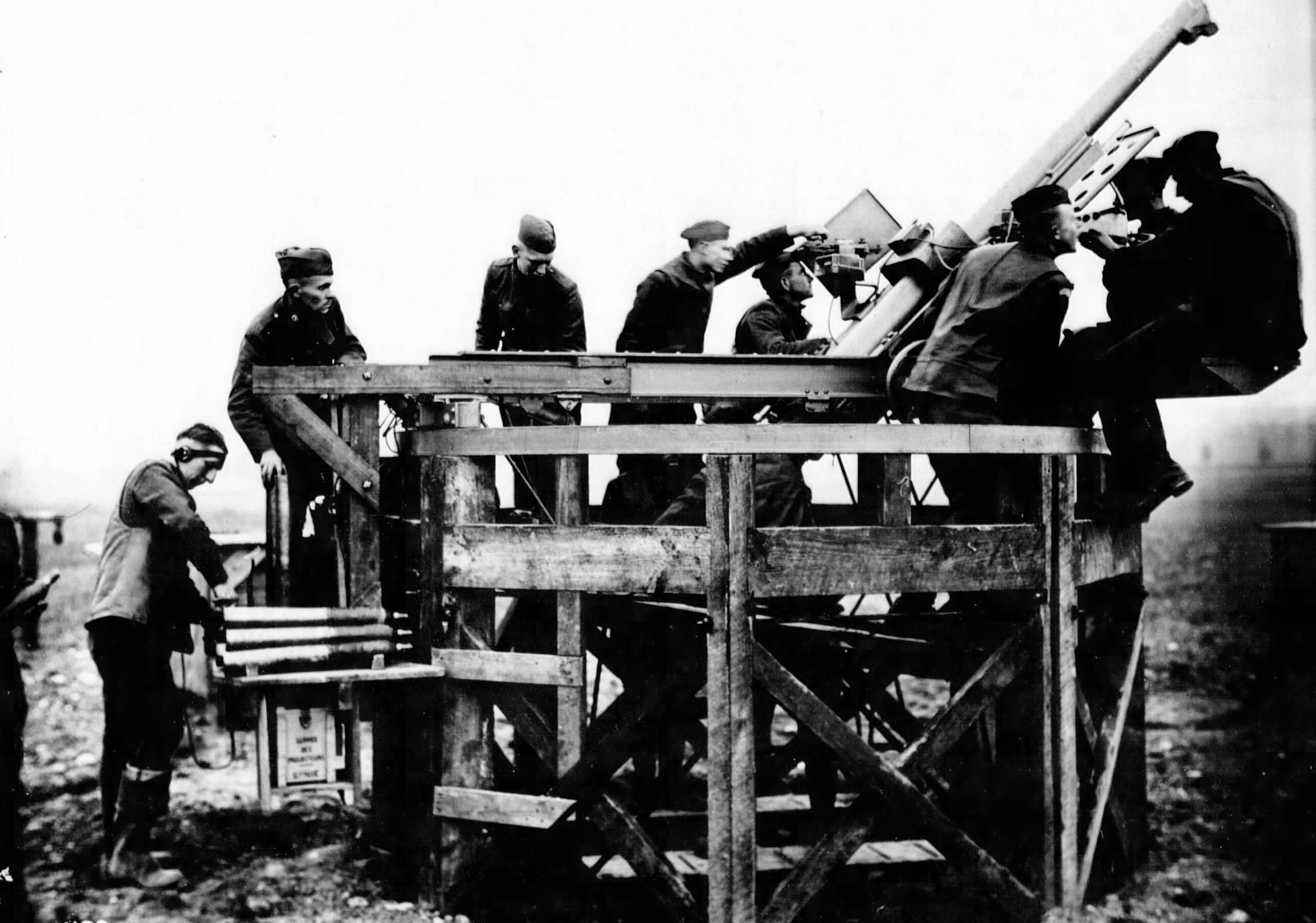 Colombey-les-Belles Aerodrome - 75mm AAA Gun Source: Series 1, Paris Headquarters and Supply Section, Volume 30 History of the 1st Air Depot at Colombey-led-Belles, Gorrell's History of the American Expeditionary Forces Air Service, 1917–1919, National Archives, Washington, D.C.